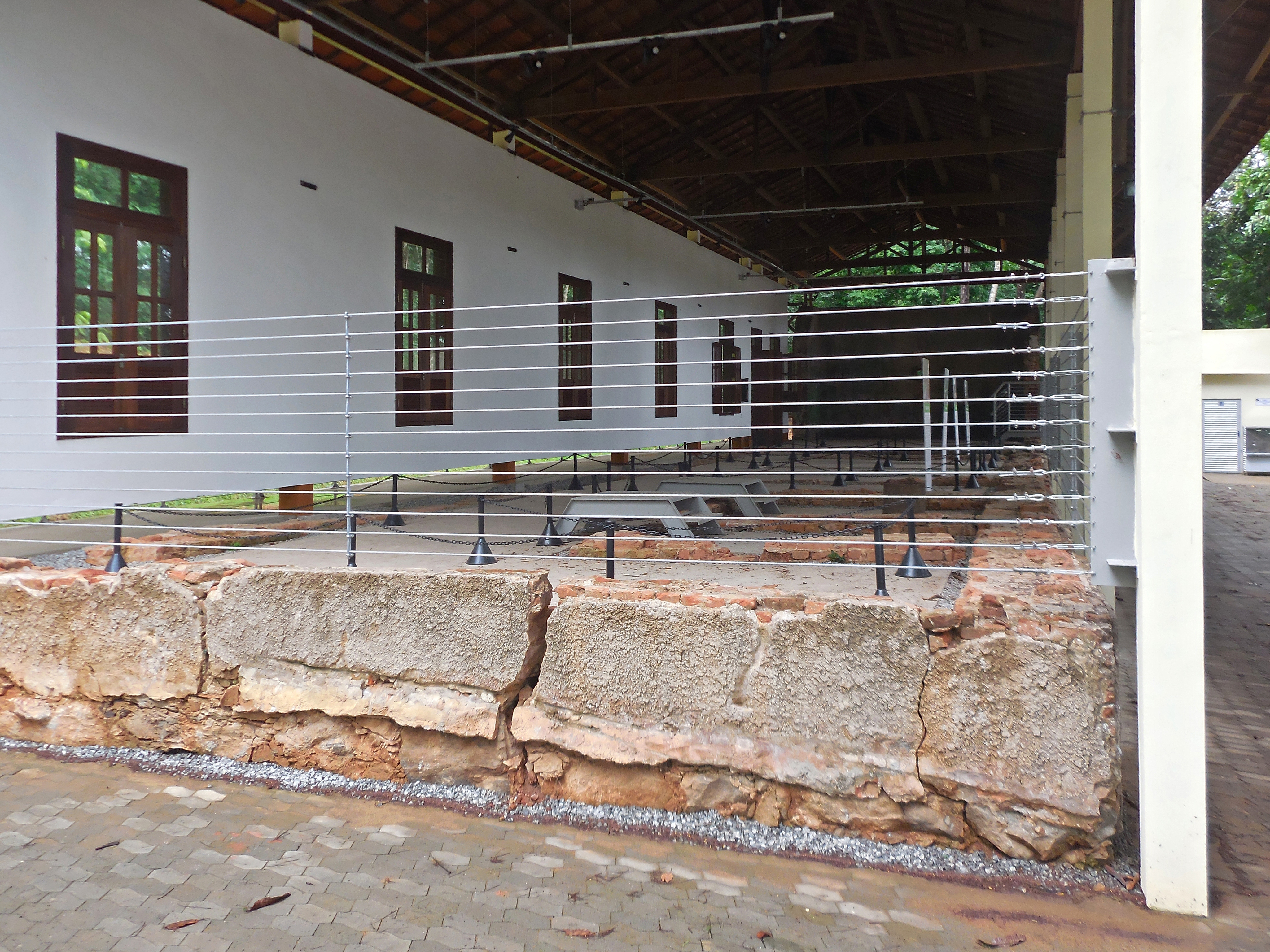 Original foundation of the Pedra Mole train station, in Ipatinga, Minas Gerais, Brazil.